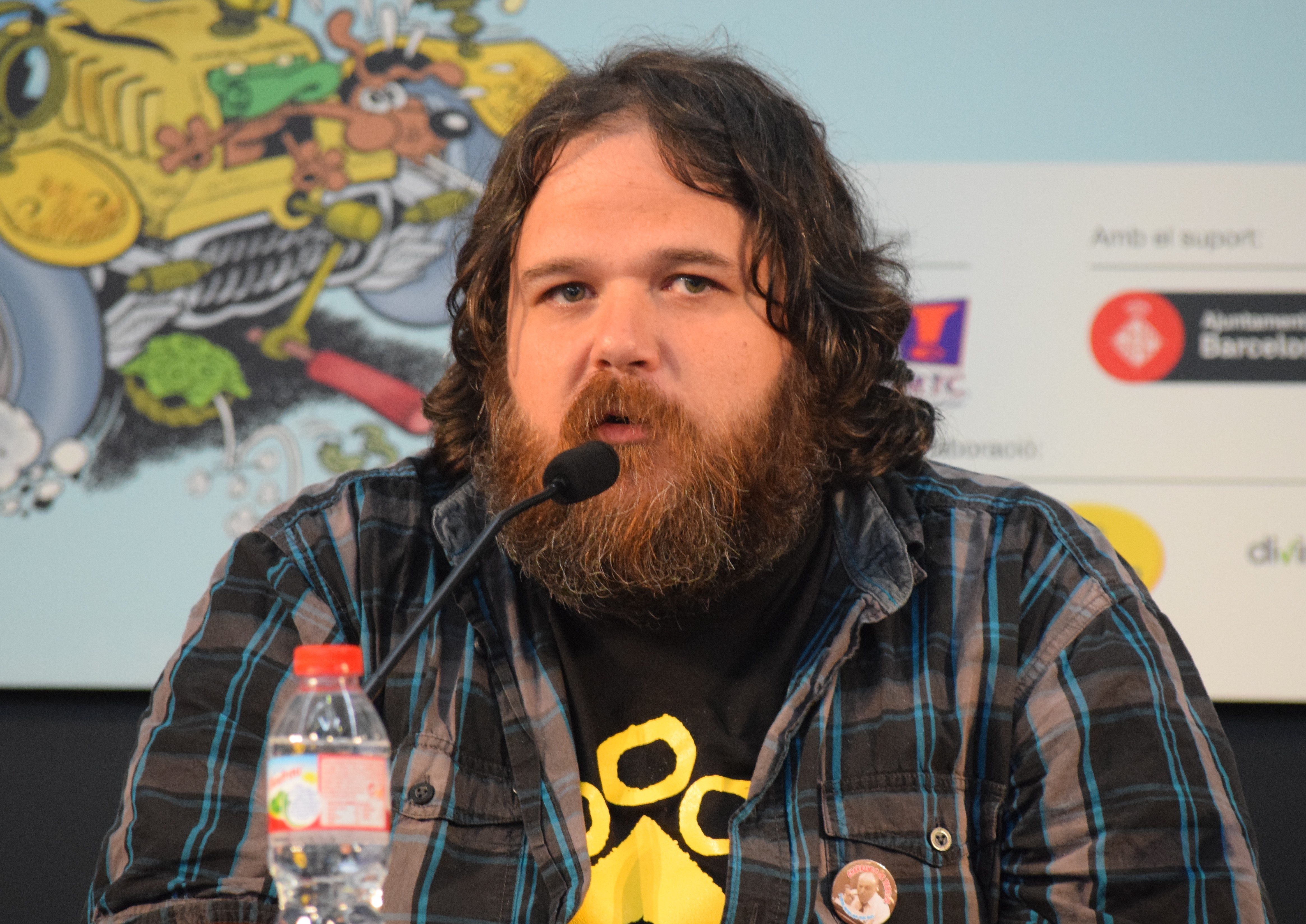 Conference. Meeting with half of the nominated authors to the award to the Best Comic. Detail of Josep Busquet, author of the comic Barcelona. La última aventura. The journalist Vicent Sanchis moderated the conference. Barcelona Internacional Comic Convention. Friday 6 may 2016.